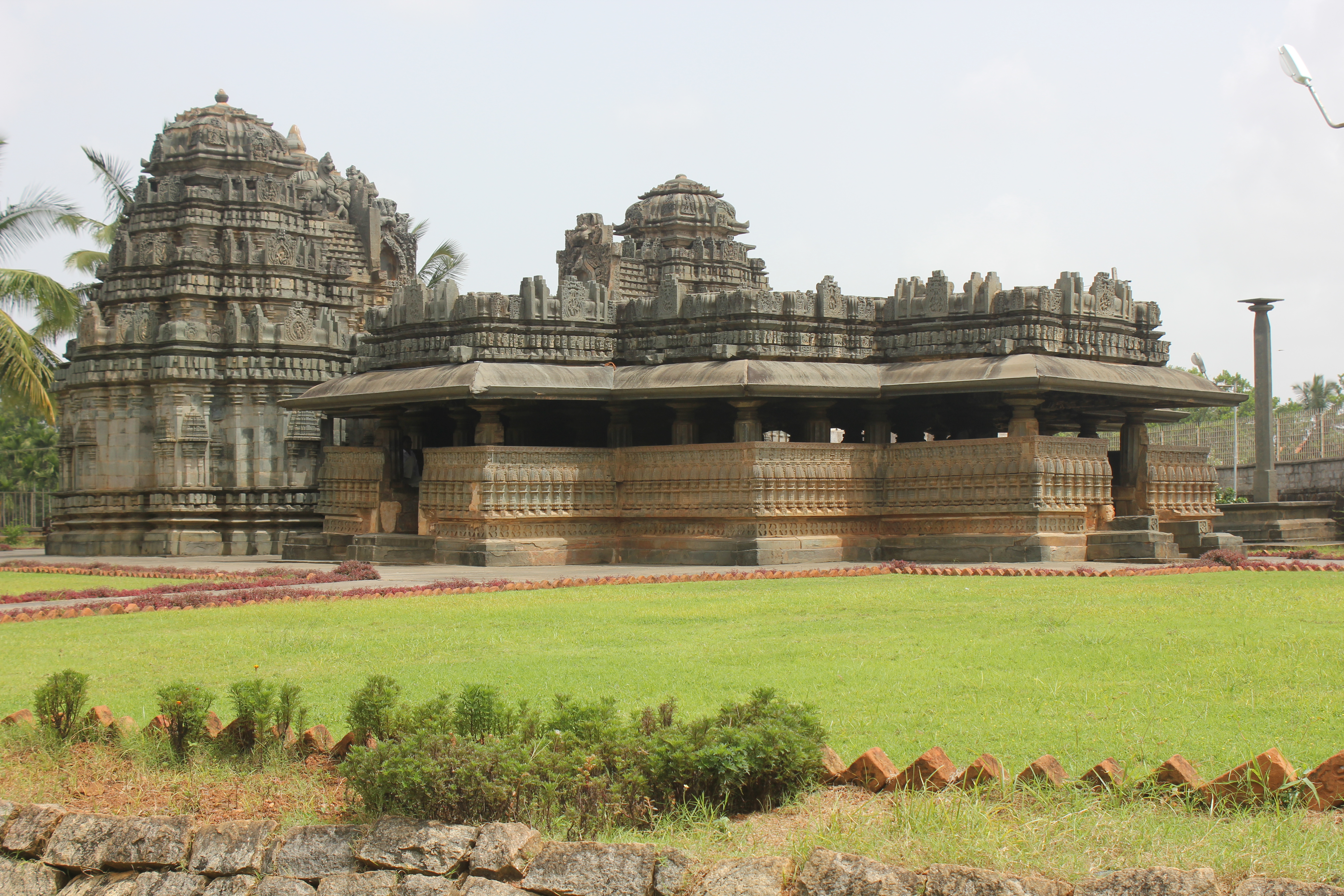 Kedaresvara temple at Balligavi